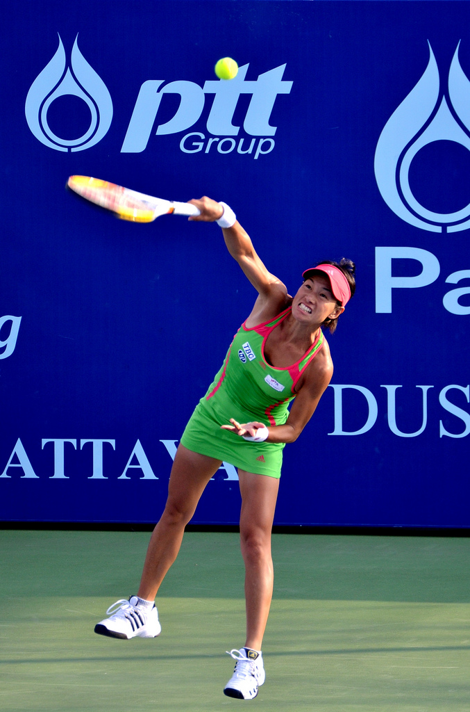 Kimiko Date-Krumm at WTA tournament of Pattaya, February 2011